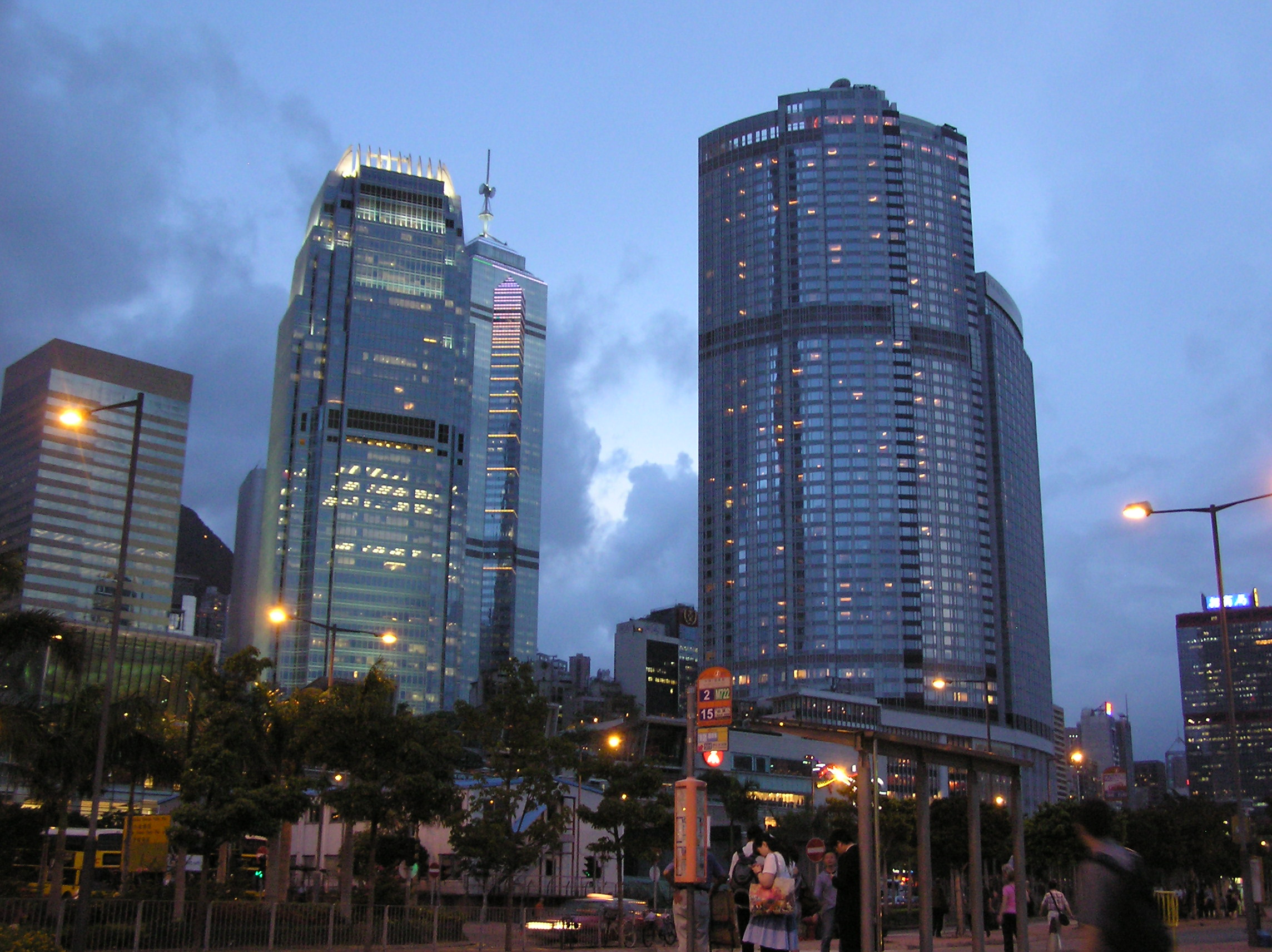 Tower 1 of the International Finance Centre (left) and the Four Season Hotel (right) in Central, Hong Kong